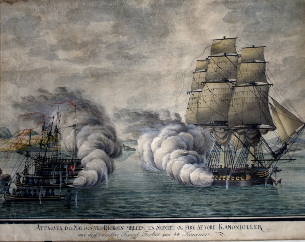 Painting of "Battle of Bjørøen (Alvøen) May 16, 1808". The English full rigger TARTAR meets four cannonballs and one schooner (cannonball) in the Vatlestraumen. Inscriptionː ATTACK MAY 16, 1808 AT THE BIORO ISLAND BETWEEN A SCHOONER AND FOUR OF OUR GUNBOATS WITH THE ENGLISH FRIGATE TARTAR OF 44 CANNON.